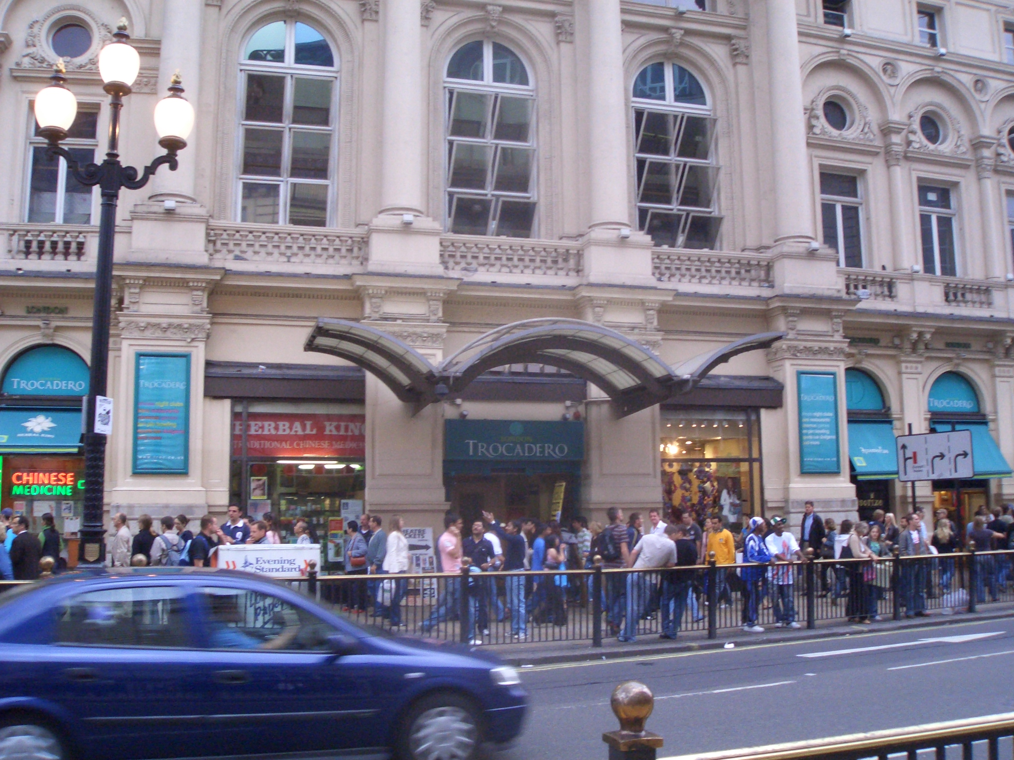 Trocadero Photo taken by User:Edward